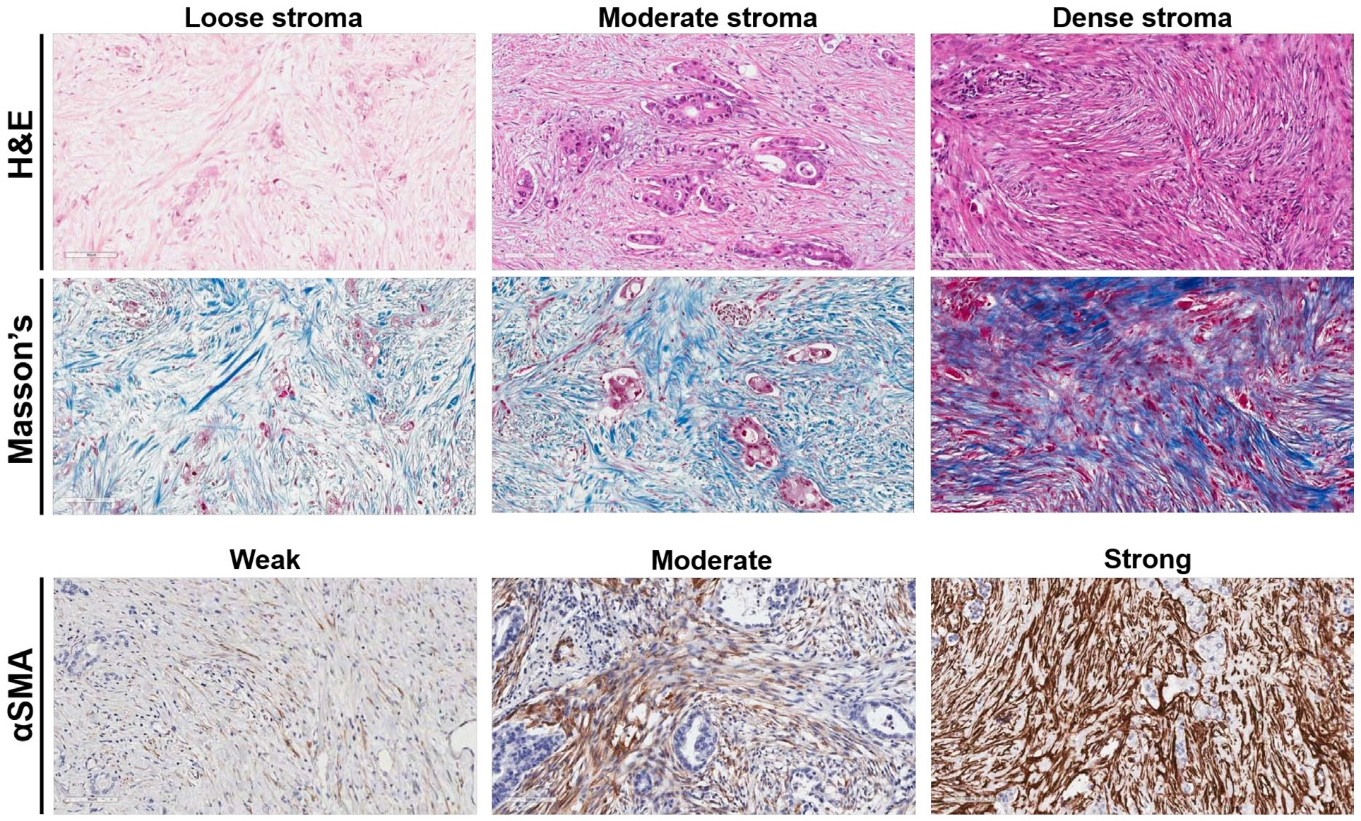 Immunohistochemical staining of desmoplastic stroma in patients with pancreatic ductal adenocarcinoma. - Top row shows representative examples of loose, moderate and dense stroma based on H & E staining pattern, as indicated. - Middle row shows corresponding Masson’s trichrome staining (blue colour) is shown (same cases as in top row). -Bottom row shows representative examples of tumors with weak, moderate and strong expression of alpha smooth muscle actin (αSMA), as indicated. Magnification, x200.